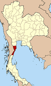 Map of Thailand highlighting Prachuap Khiri Khan province